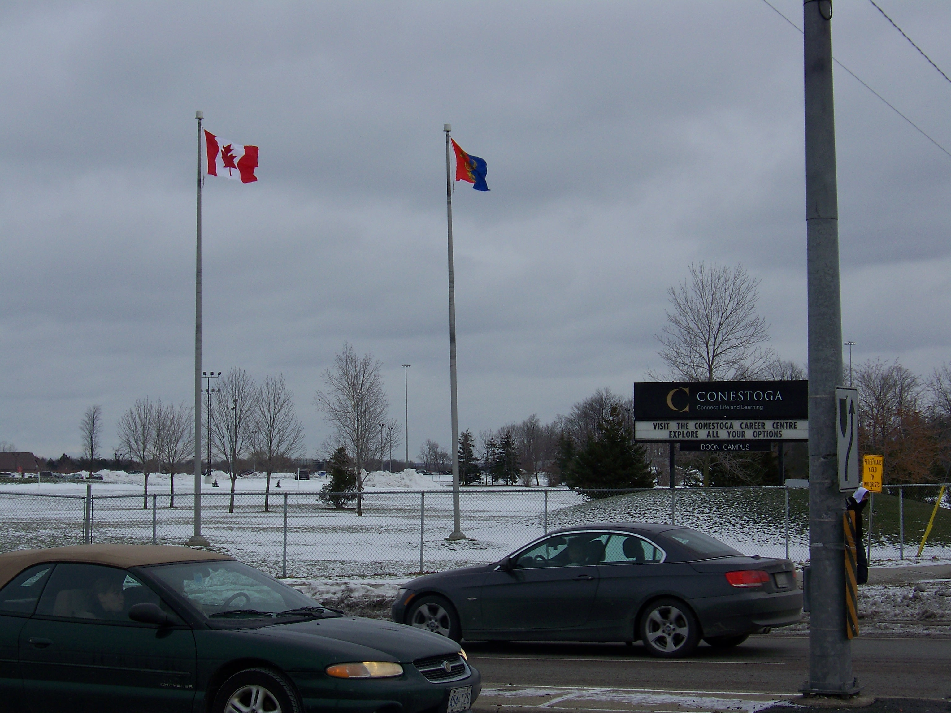 Sign to the Doon Campus